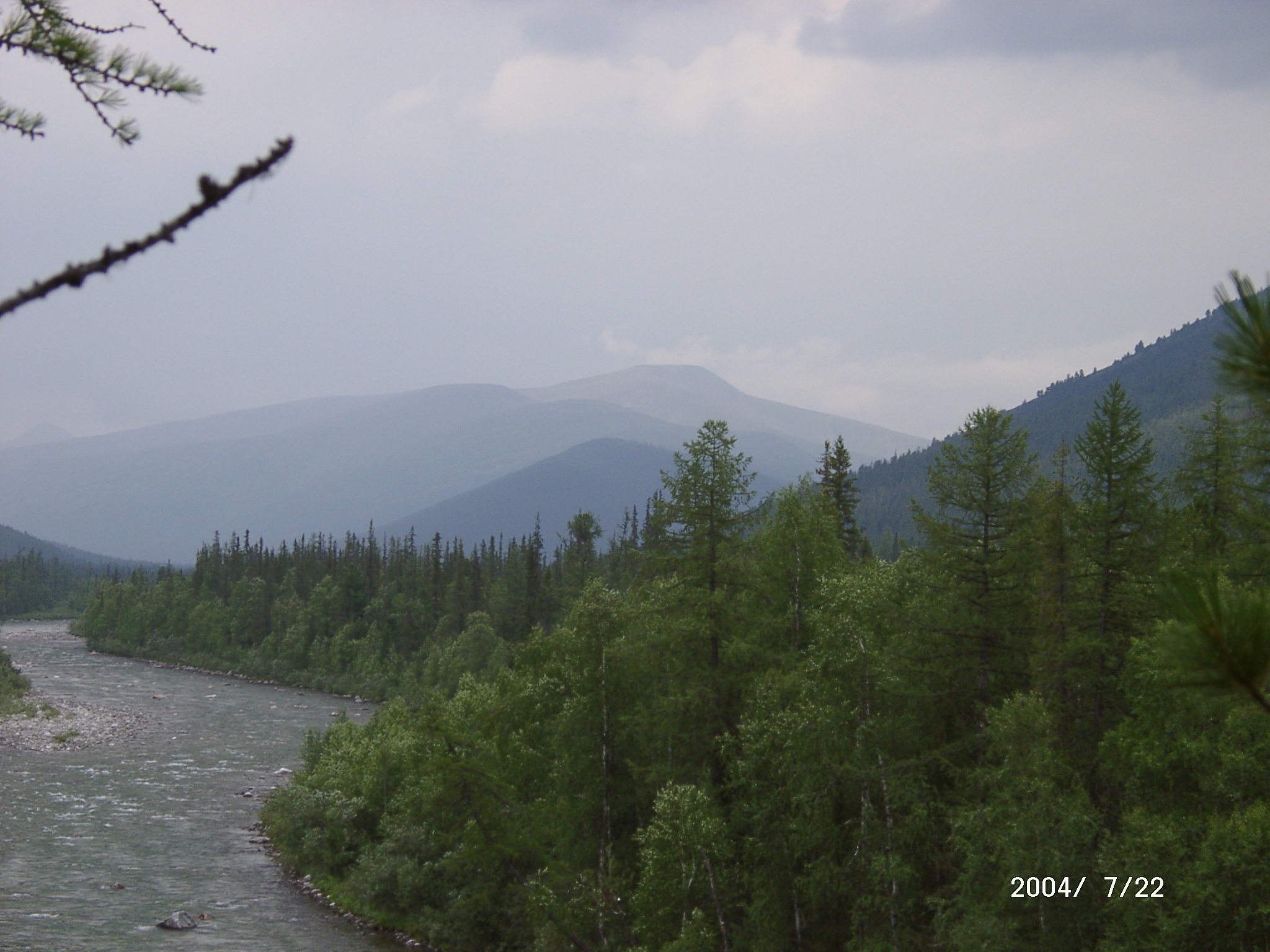 A river with Ural mountains on the background, Berezovsky, Khantia-Mansia, Russia